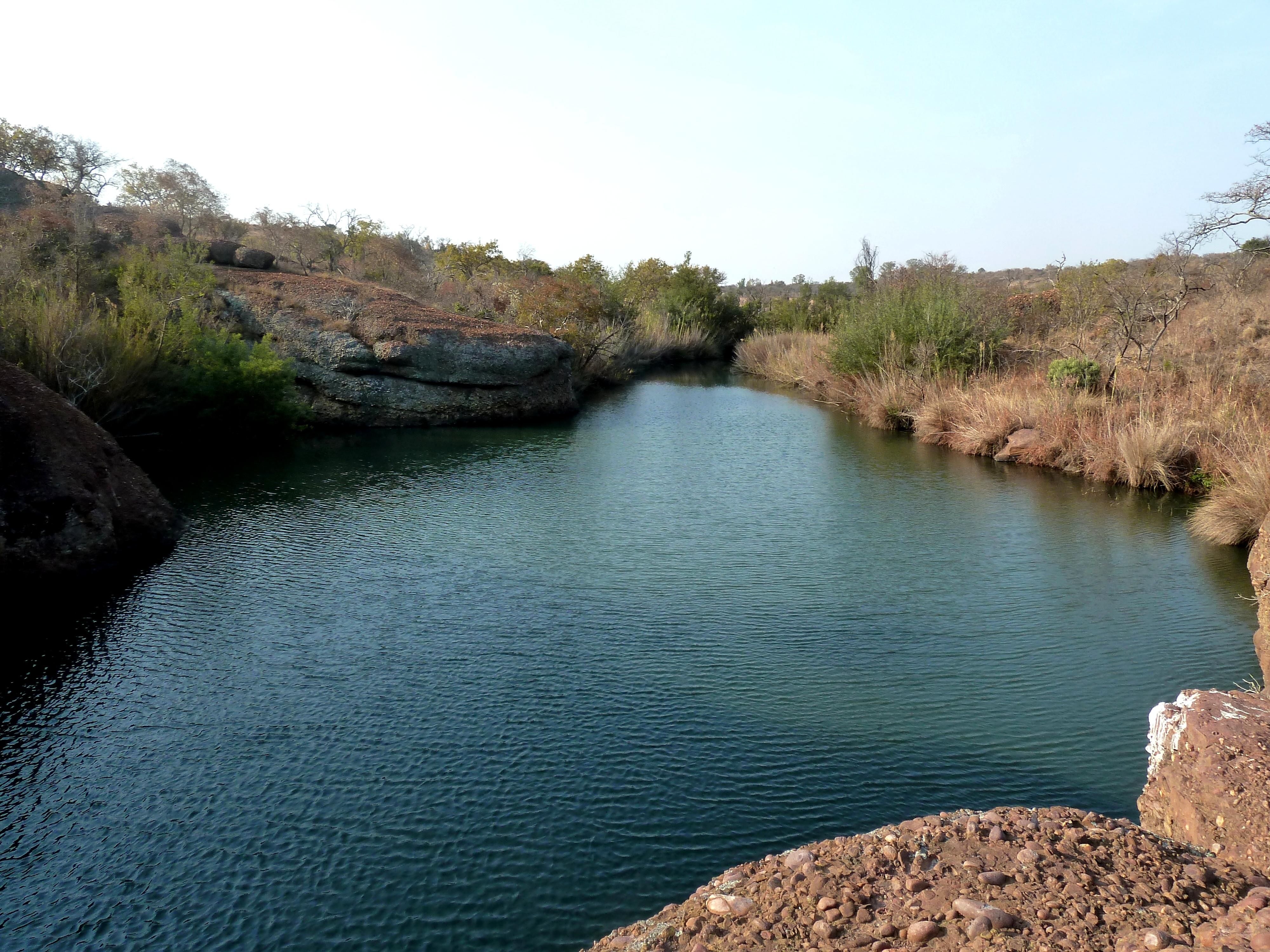 Pool in the Elands River, Gauteng, flanked by conglomerate rocks, at Little Eden, De Tweedespruit conservancy